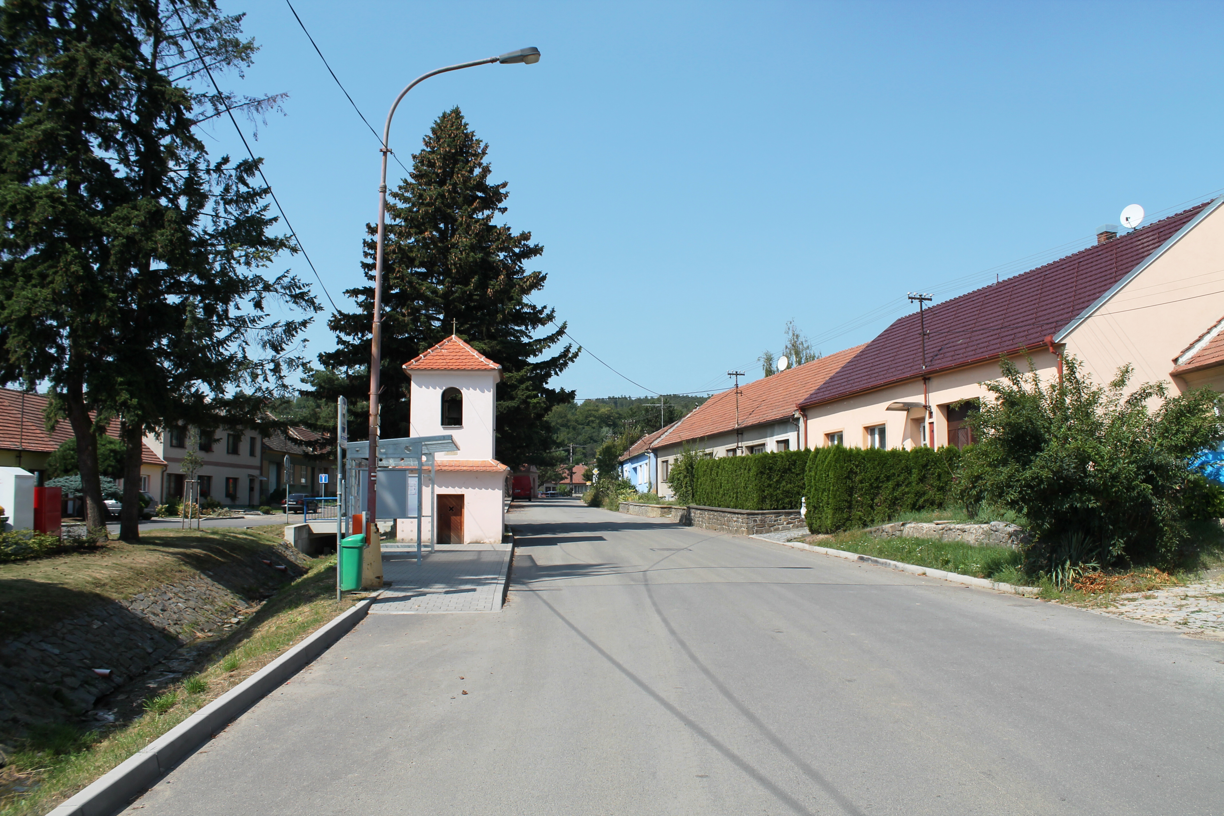 Vítovice, Rousínov, Vyškov District, Czech Republic